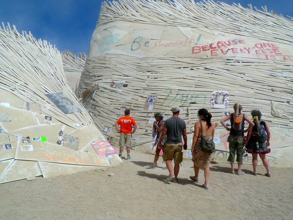 People entering the "Temple of Flux" at the Burning Man festival in 2010